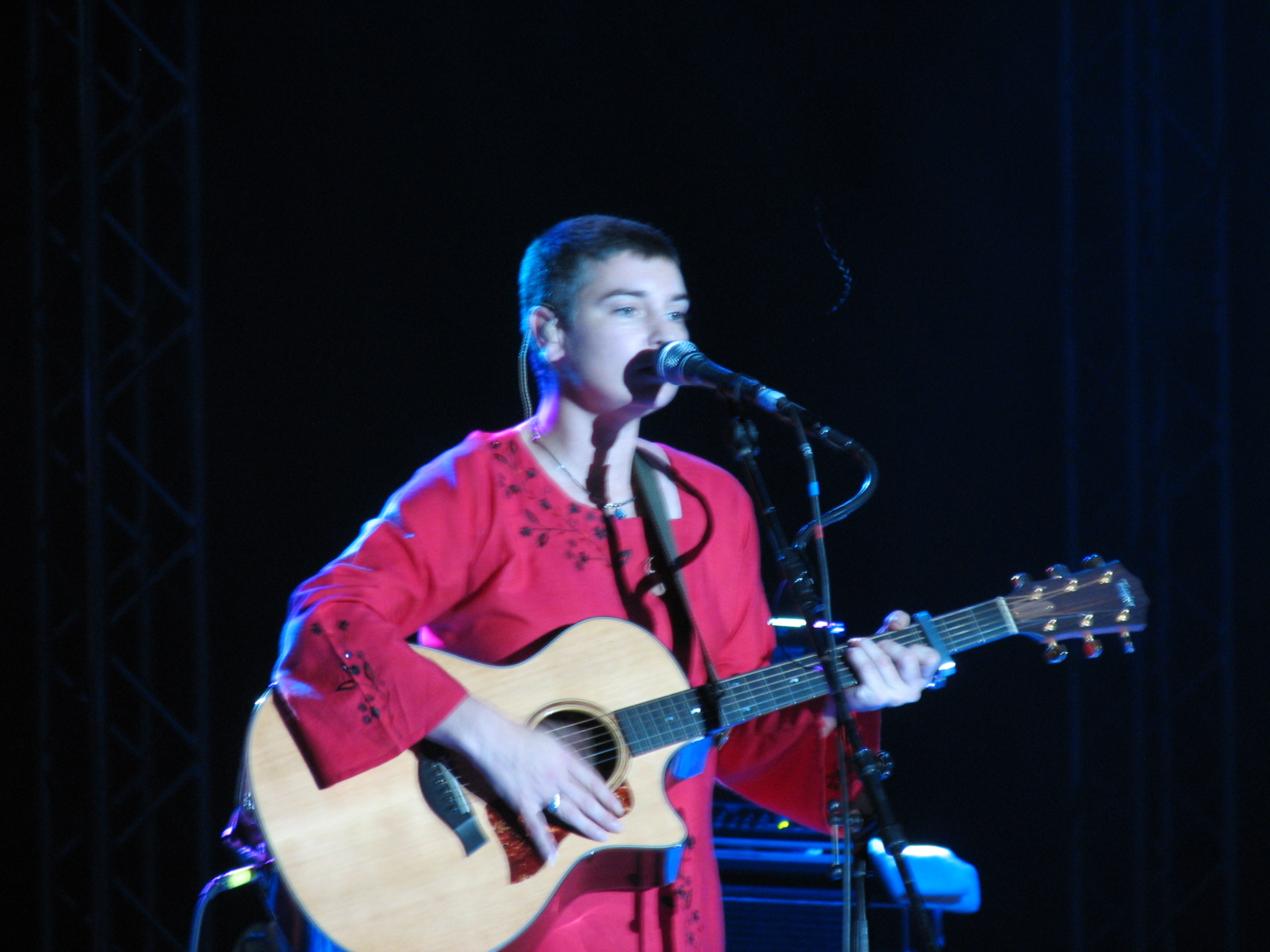 Sinéad O'Connor at Malta Festival 2007, Poland, Poznań.